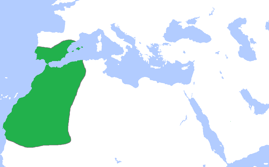 Locator map of the Almoravid dynasty at its greatest extent, c. 1120. (Partially based on Atlas of World History (2007) - The World 1000-1200, map)